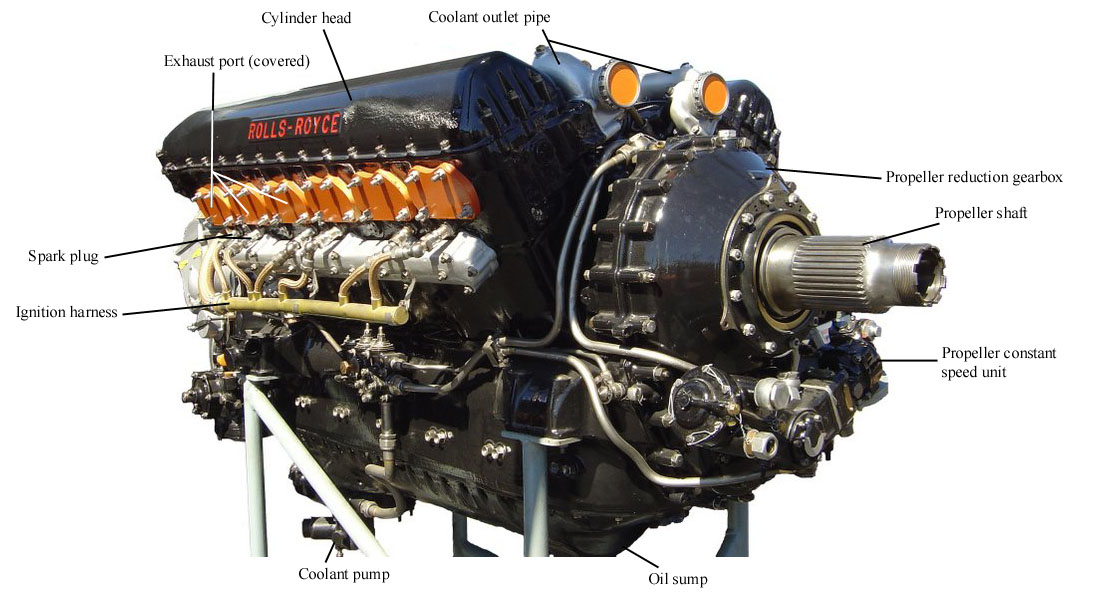 Modified existing PD image. Image:Rolls-Royce Merlin.jpg